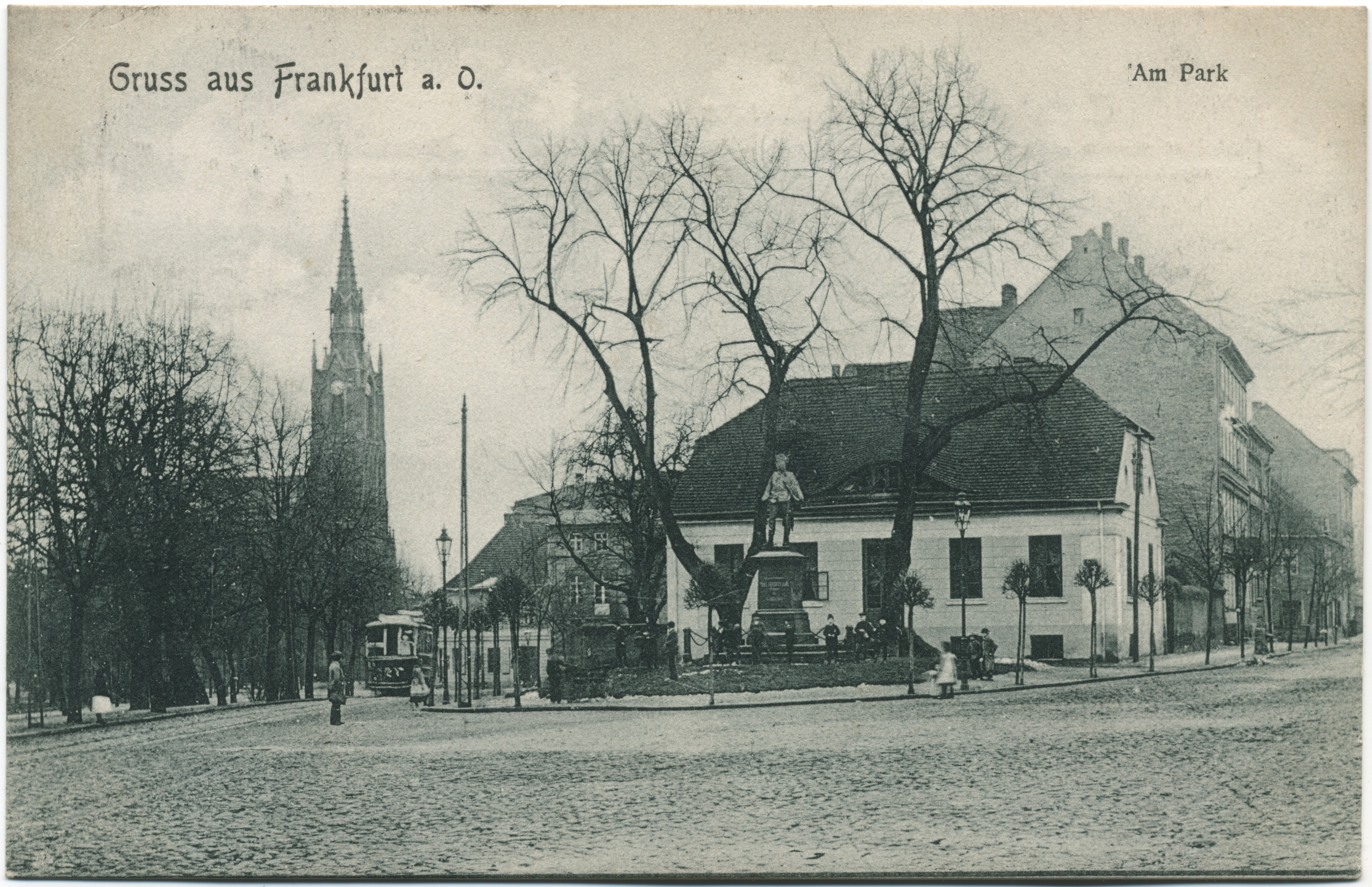 Frankfurt (Oder), St. Gertraud church, St. Gertraud rectory, monument to Prince Frederick Charles of Prussia. Picture postcard from 1907.